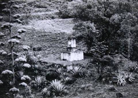 The photograph shows samadhi(tomb)of Soham Swami, a famous Bengali yogi and Guru and Hindu religious figure of India.His samadhi(tomb) is located at Palitpur, Burdwan, India.